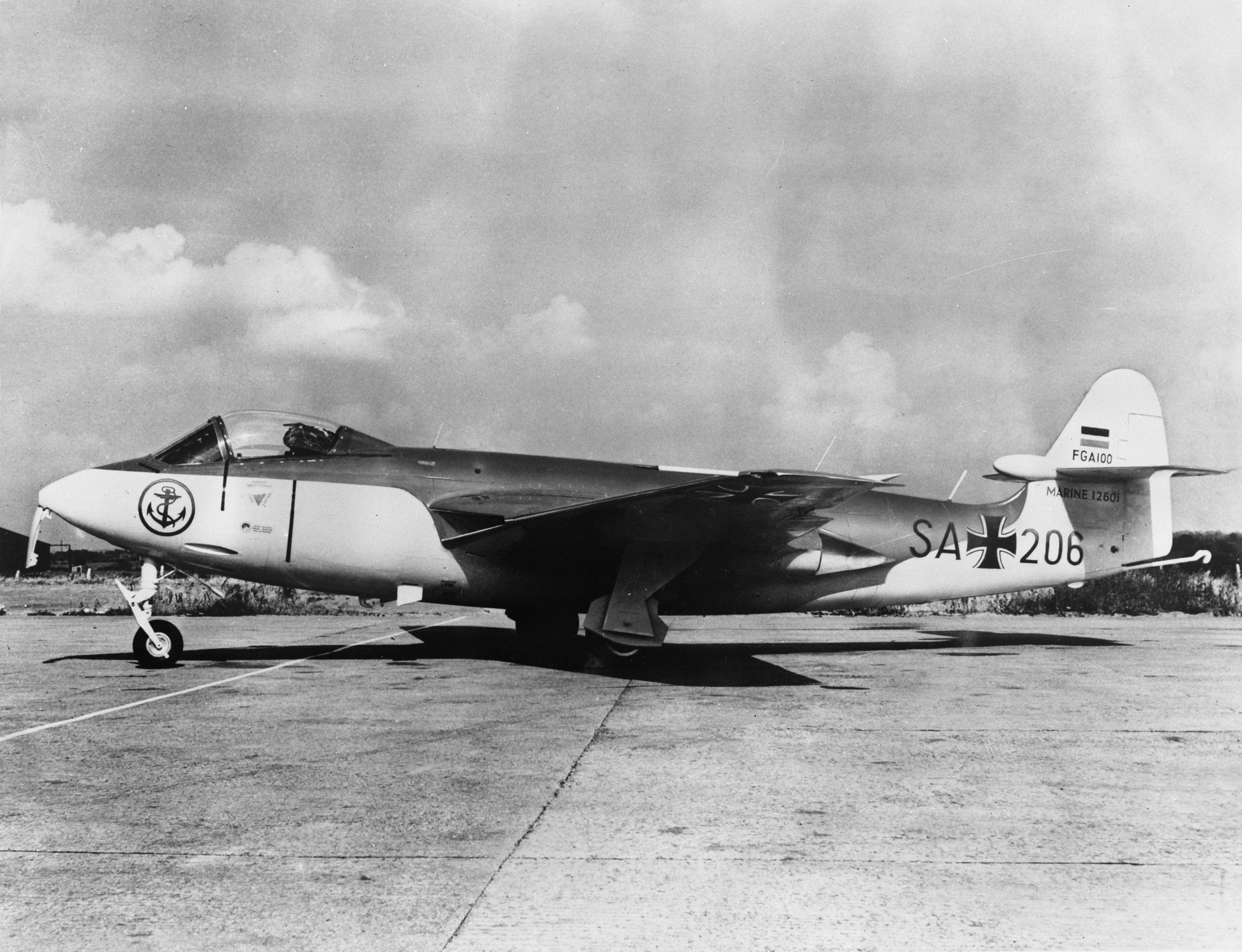 A West German Navy Hawker Sea Hawk FGA.100 (s/n SA+206) on 4 March 1957.